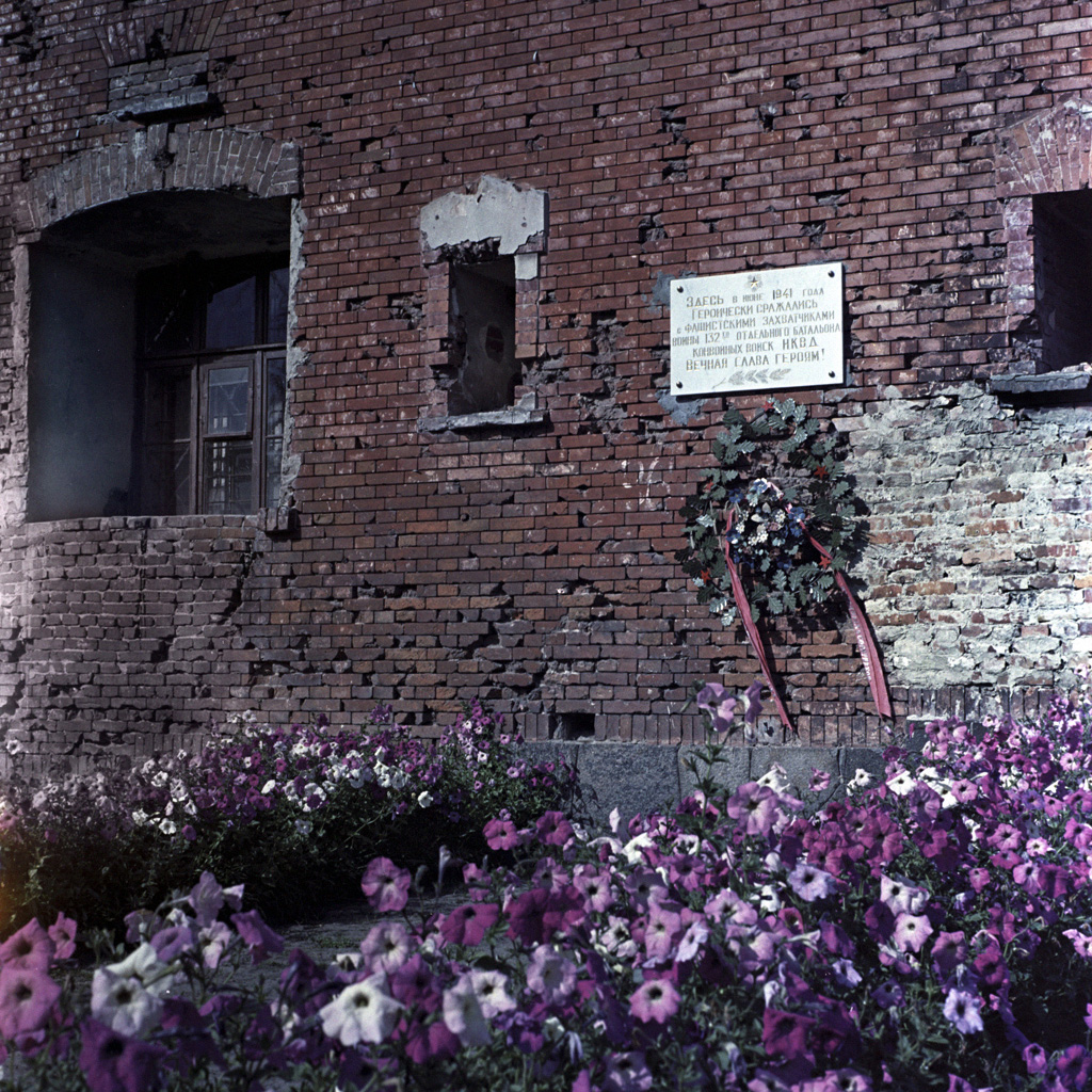 “The Brest Fortress. Plaque in memory of NKVD soldiers”. The Brest Fortress. Plaque in memory of People's Commissariat/Ministry of Interior Affairs [NKVD] soldiers reading: "In June 1941, soldiers of the 132nd Independent NKVD Convoy Battalion heroically fought Nazi invaders here. Eternal glory to the heroes."